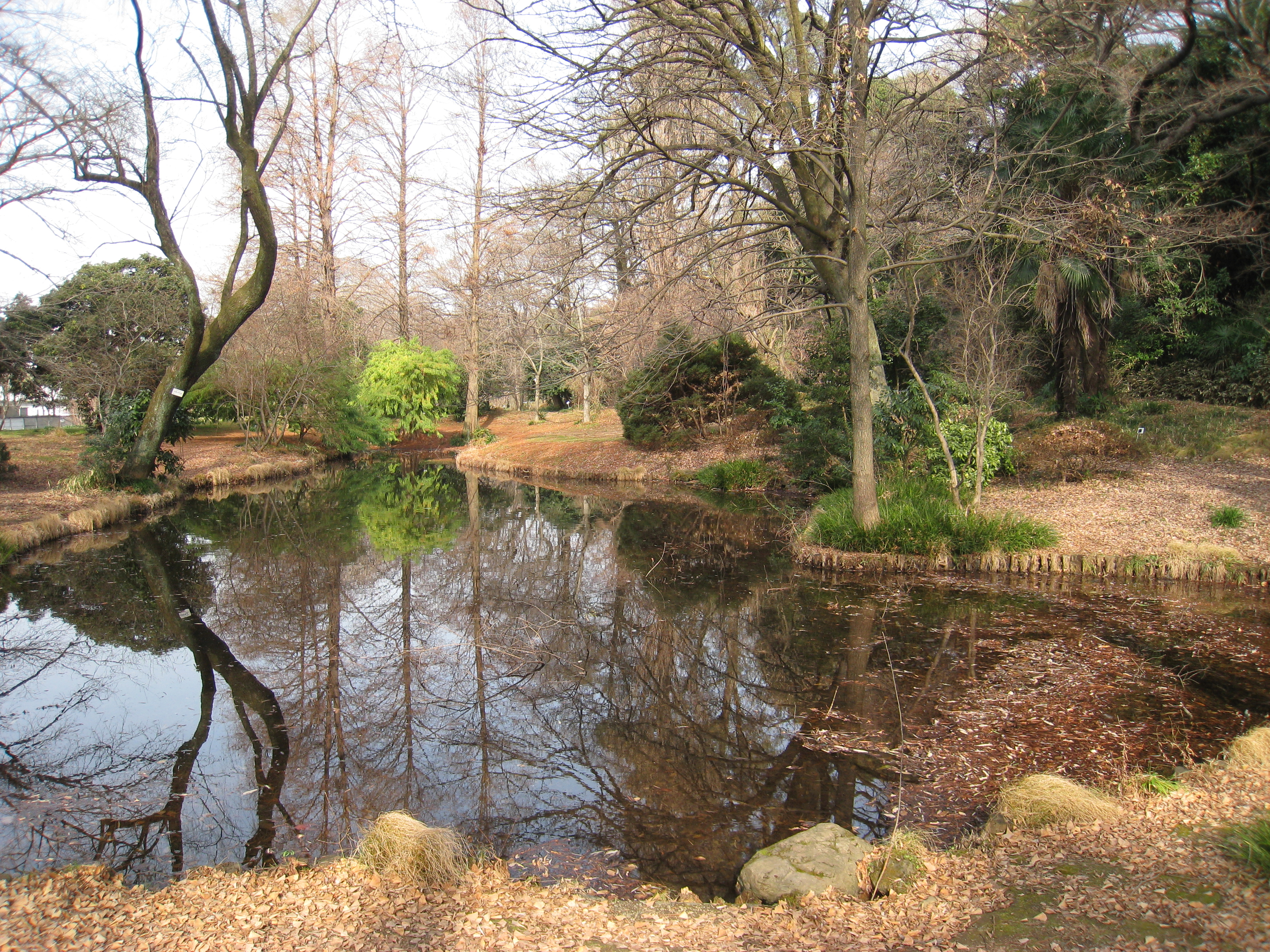 Koishikawa Botanical Gardens, Tokyo, Japan - pond in winter.